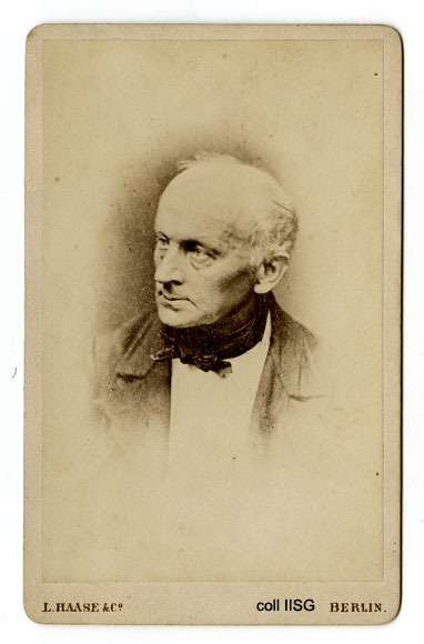 Bruno Bauer